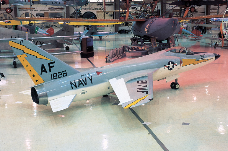 A Grumman F11F-1 Tiger fighter on display at the U.S. Museum of Naval Aviation at Pensacola (Florida, USA). Aircraft BuNo 141828 is painted in the colours of fighter squadron VF-33 Astronauts in 1959, when the squadron was deployed as part of Carrier Air Group Six (CVG-6) (tail code "AF") aboard the aircraft carrier USS Intrepid (CVA-11) to the Mediterranean Sea.